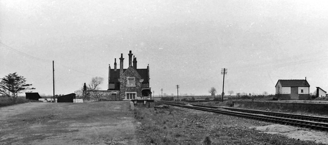 Blyton Station (converted). View eastwards, towards Barnetby etc.; ex-GCR Sheffield - Retford - Gainsborough - Barnetby - Immingham/Grimsby/Cleethorpes secondary main line. Station closed to passengers 2/2/59 (goods 2/3/64), but the line is still in use.